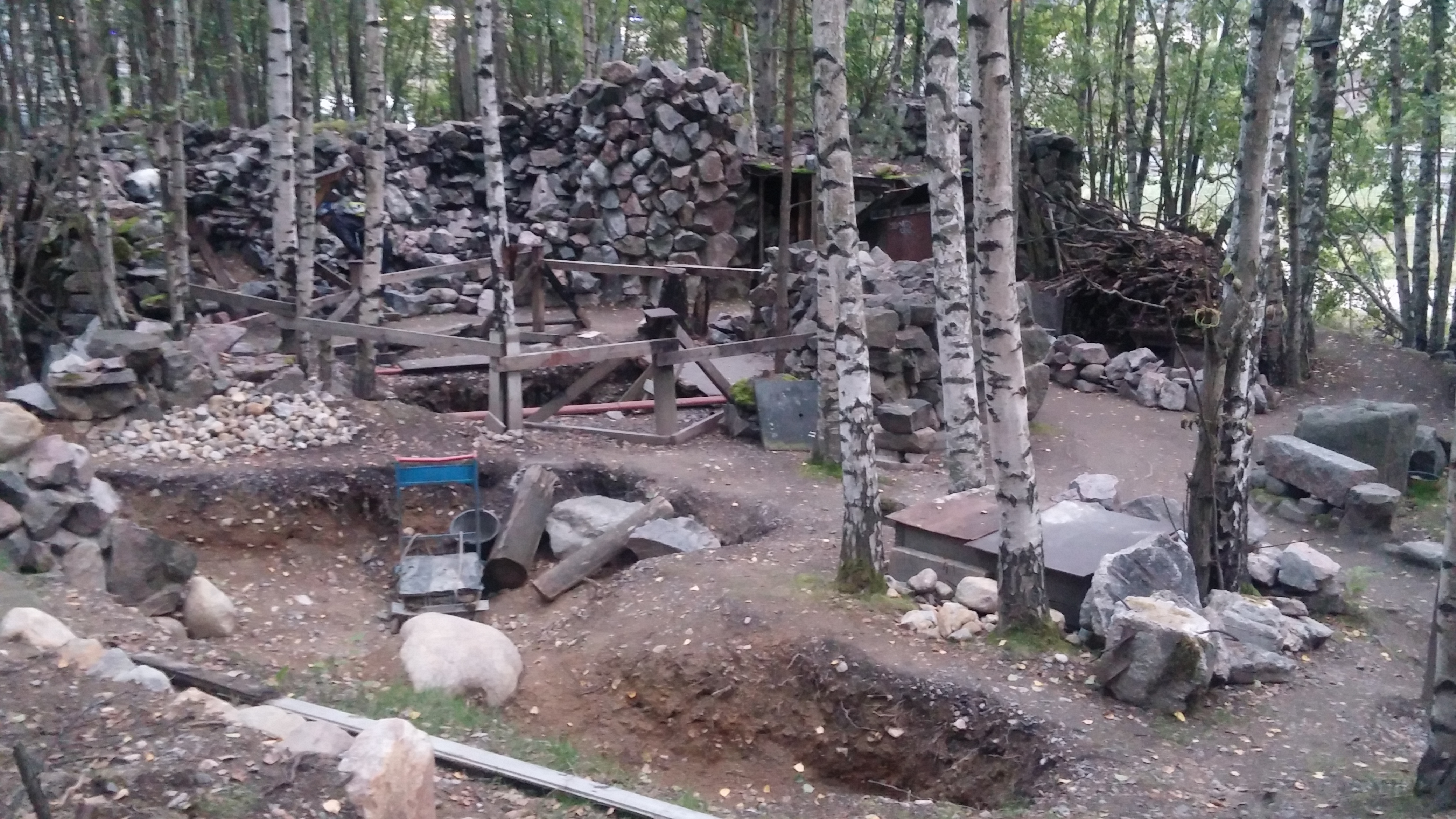 Pasilan kivilinna